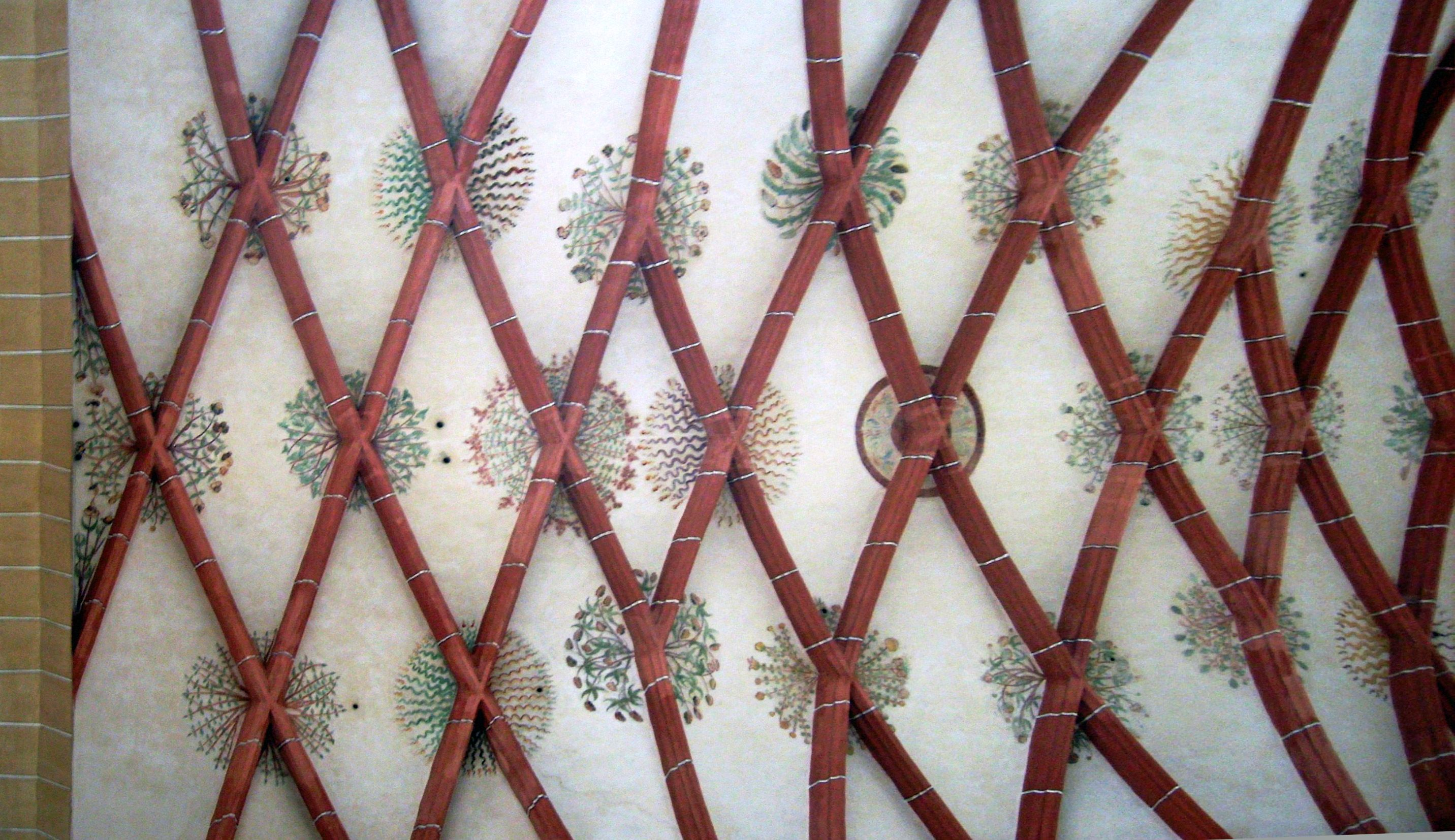 Vault of St. Mary's Church in Rötha (Leipzig district, Saxony)